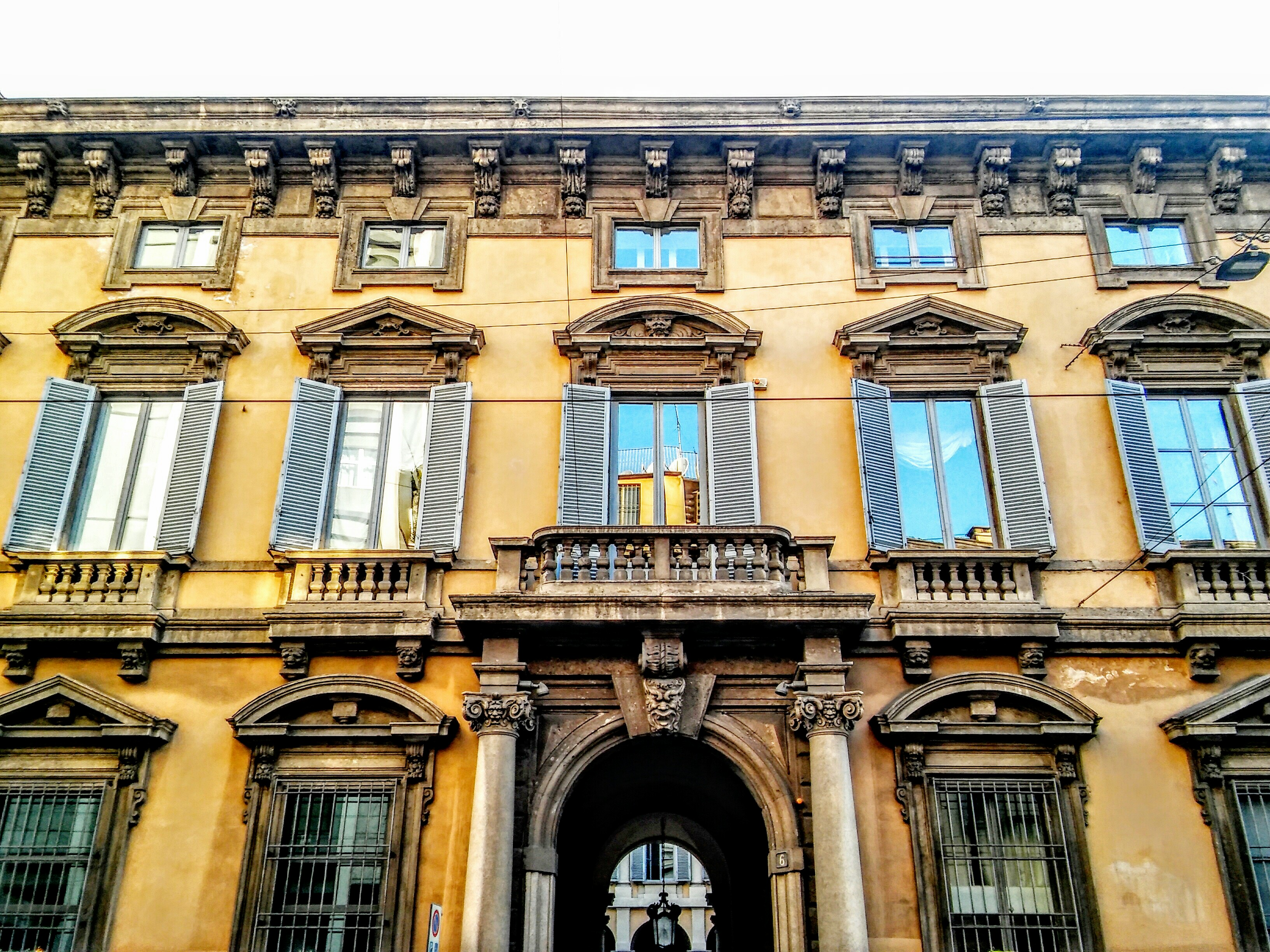 Facade of palazzo Annoni, Milan